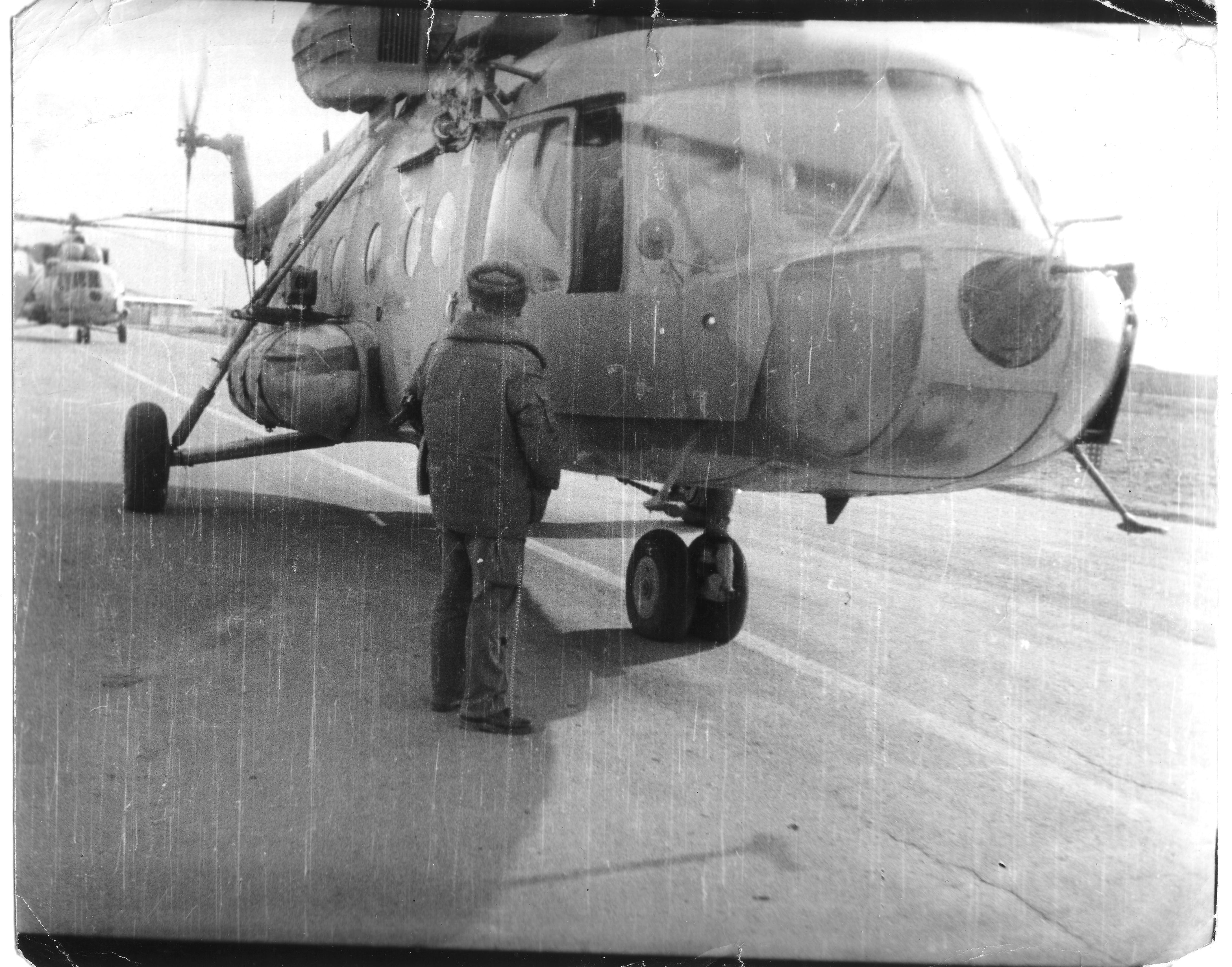 Soviet Army in Afgan, 1986. 2 Mi8MT. VVP Kabul